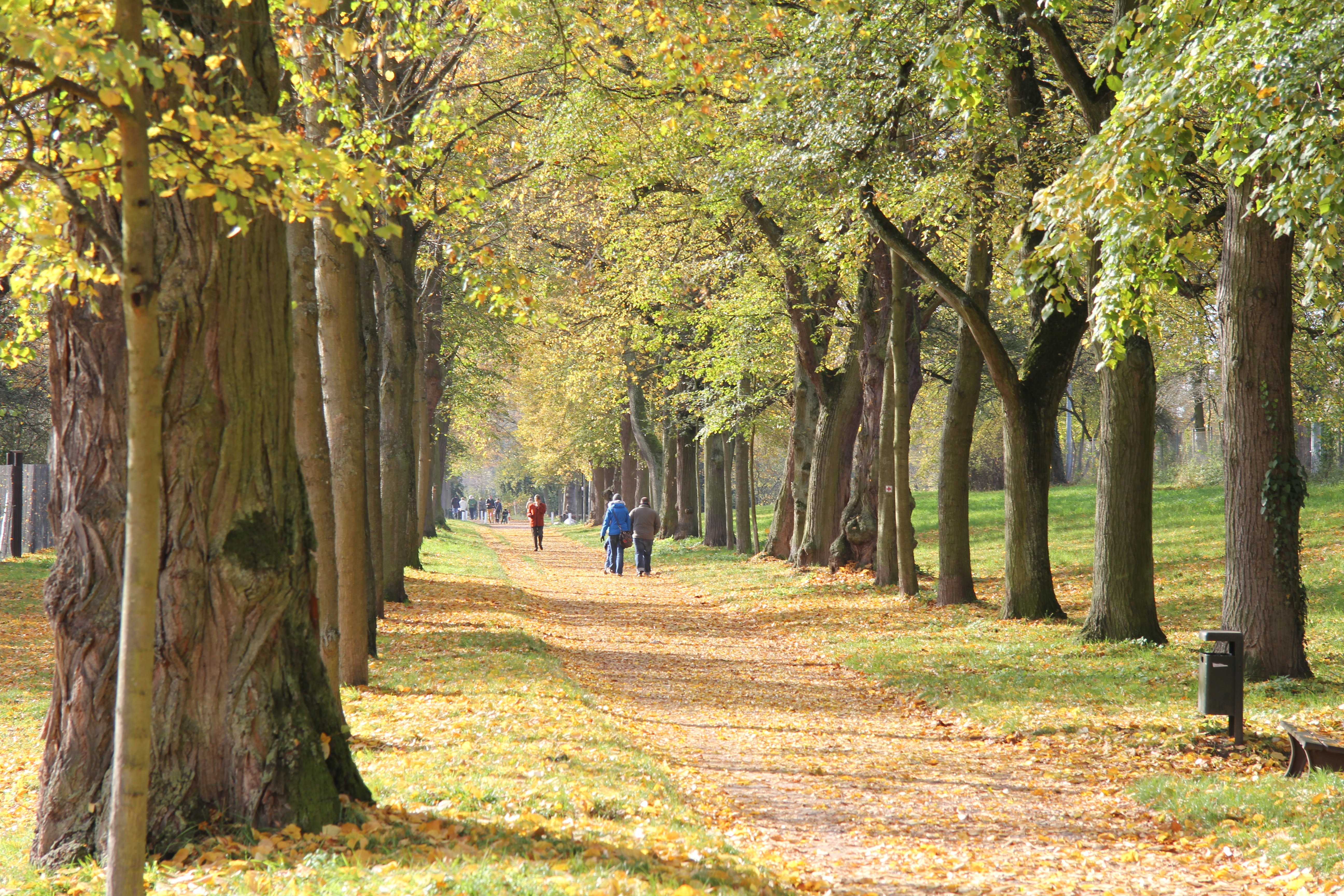 Little Schönbusch Alley in Aschaffenburg, Bavaria/Germany, direction Schönbusch Park